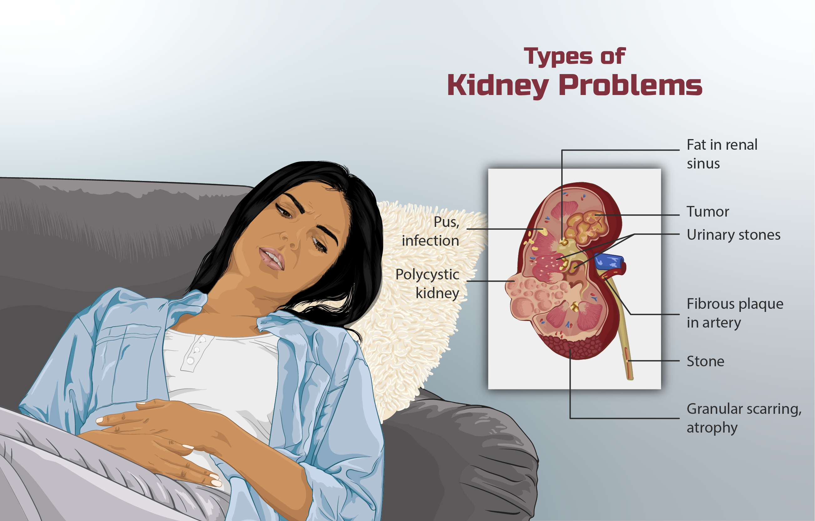 Depiction of types of kidney disease. The various kinds of problems that can affect a kidney have been shown.